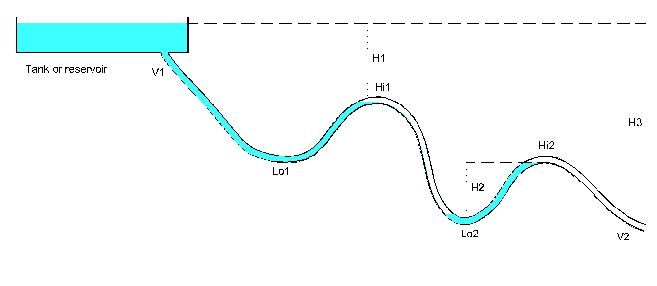 Diagram of an airlock in a water pipeline